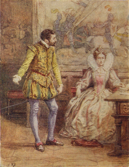 Francis Drake in an audience with Queen Elizabeth. "So please your Majesty, to singe the King of Spain's beard; it has grown somewhat too long." XIXth century coloured engraving.